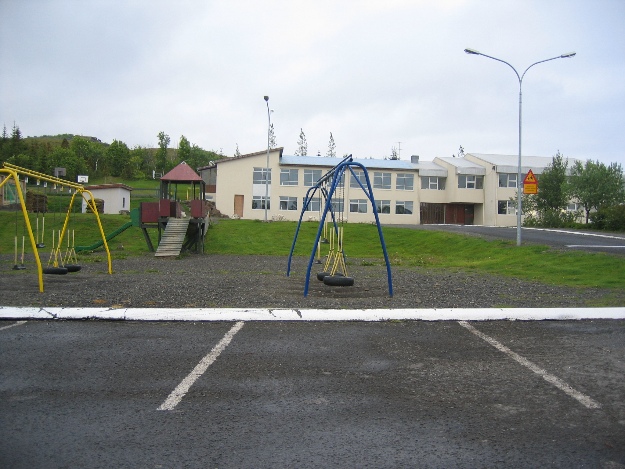 The primary school in Bláskógabyggð in Reykholt, Southern Iceland